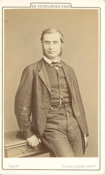 The french statesman Émile Ollivier (1825-1913)